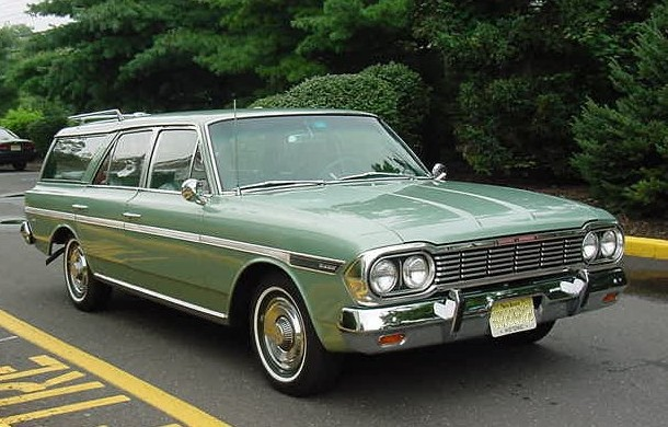 1964 Rambler Classic 770 station wagon (finished in green) built by American Motors Corporation (AMC). Picture taken at the 2003 AMCRC car show held in Somerset, New Jersey.